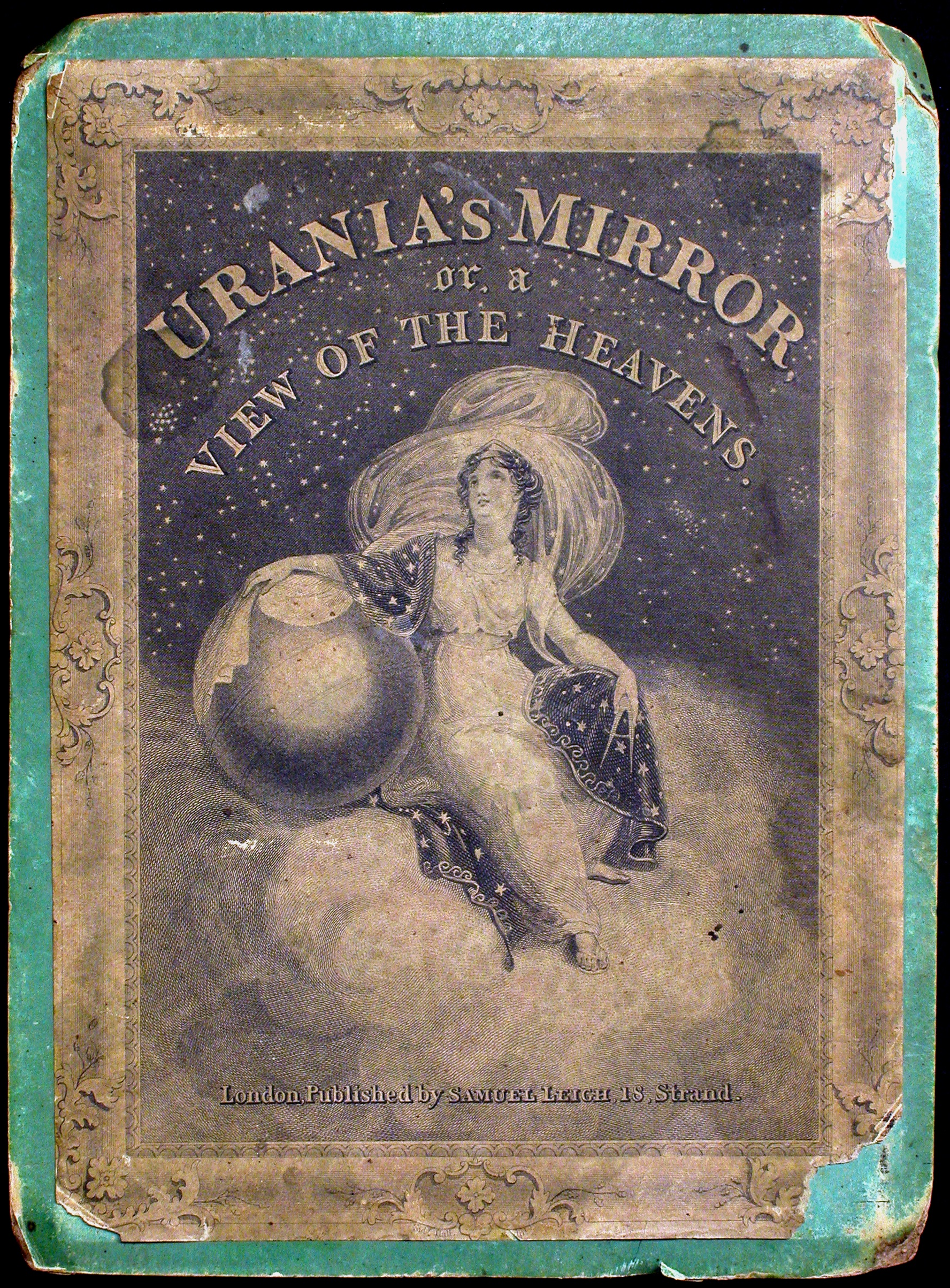 Urania’s Mirror, (London 1825), a boxed set of 32 cards; with Jehoshaphat Aspin, A Familiar Treatise on Astronomy (London 1825), 2d ed.